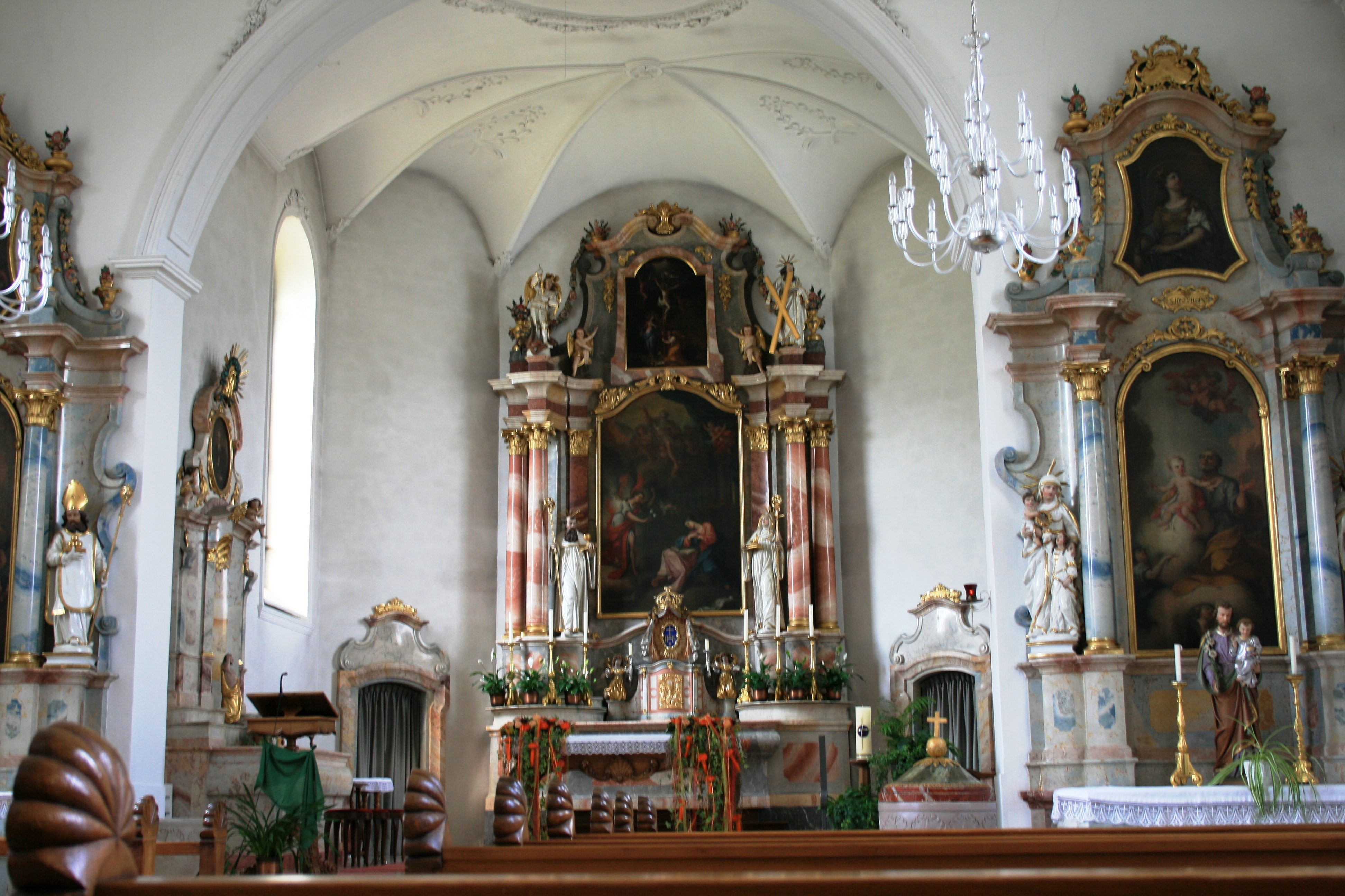 Rom.-cath. Church Walterswil SO, Switzerland